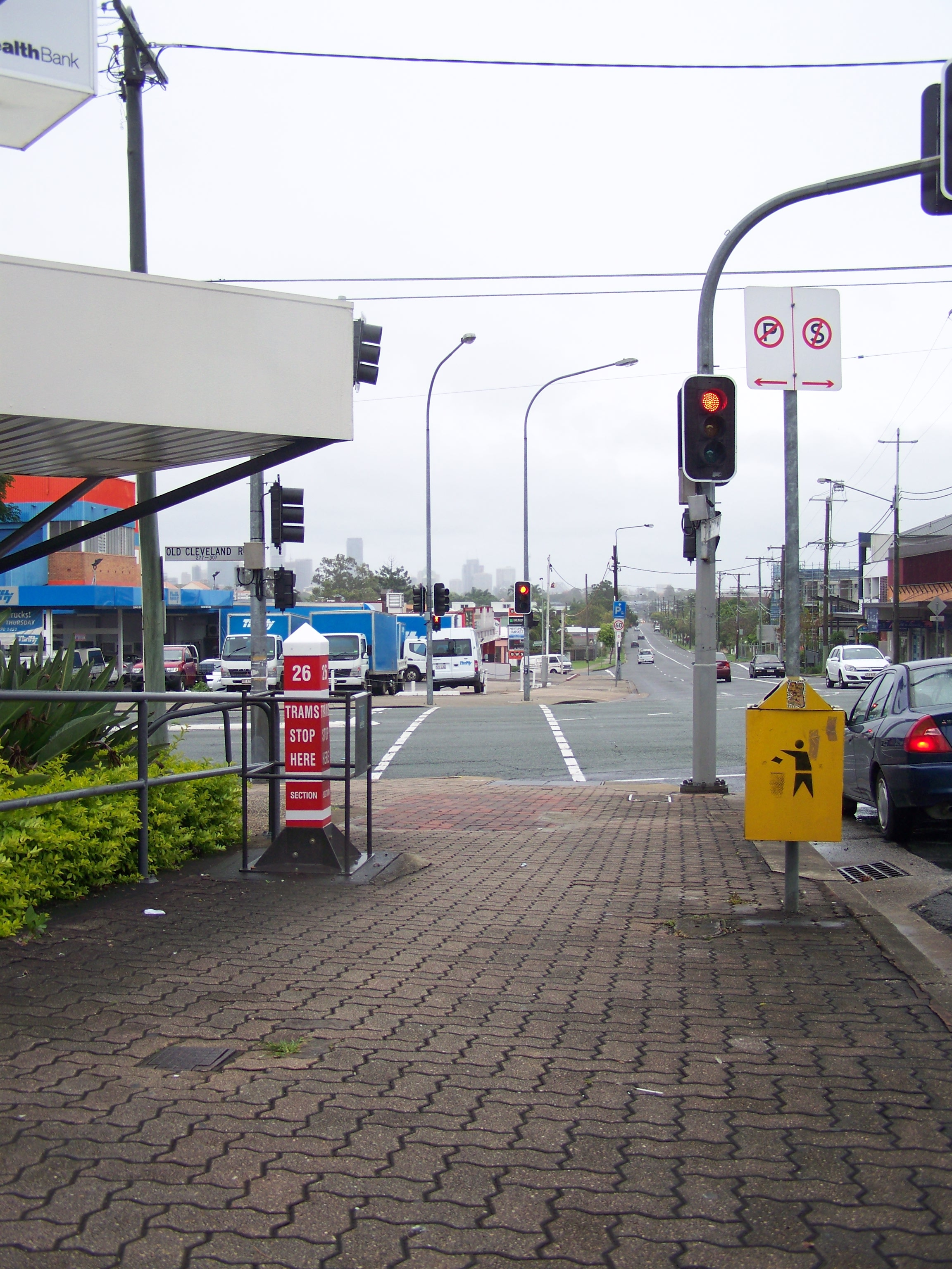 Former tram stop at the corner of Old Cleveland Road and Cavendish Road, Coorparoo, Queensland. This tram stop was in service from 1925 to 1955.